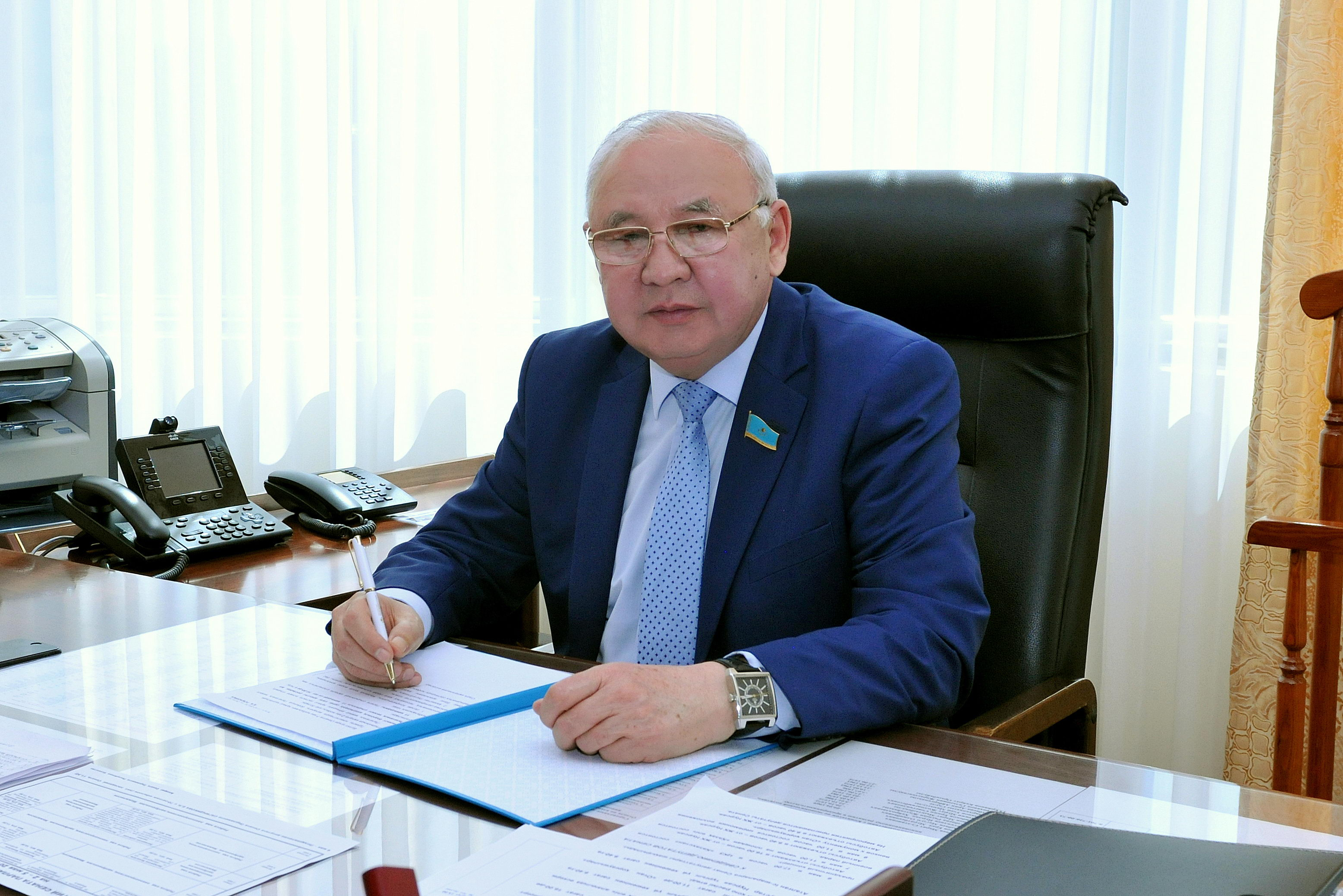 Marat Tagimov